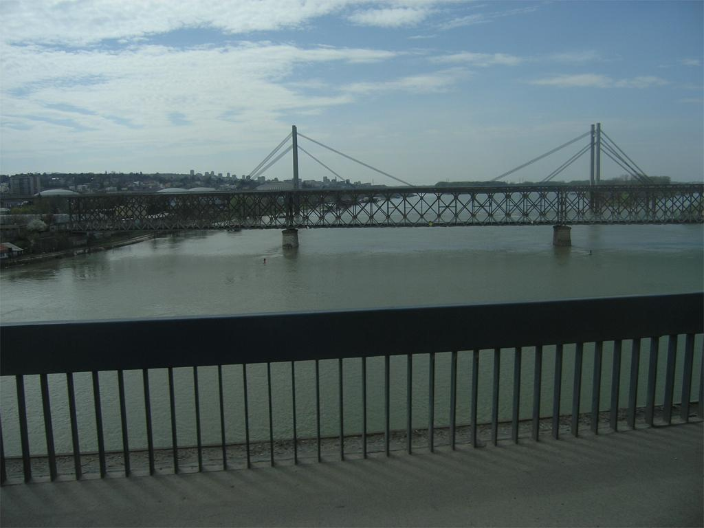 Old and New Railway Bridges in Belgrade, shot from Gazela bridge